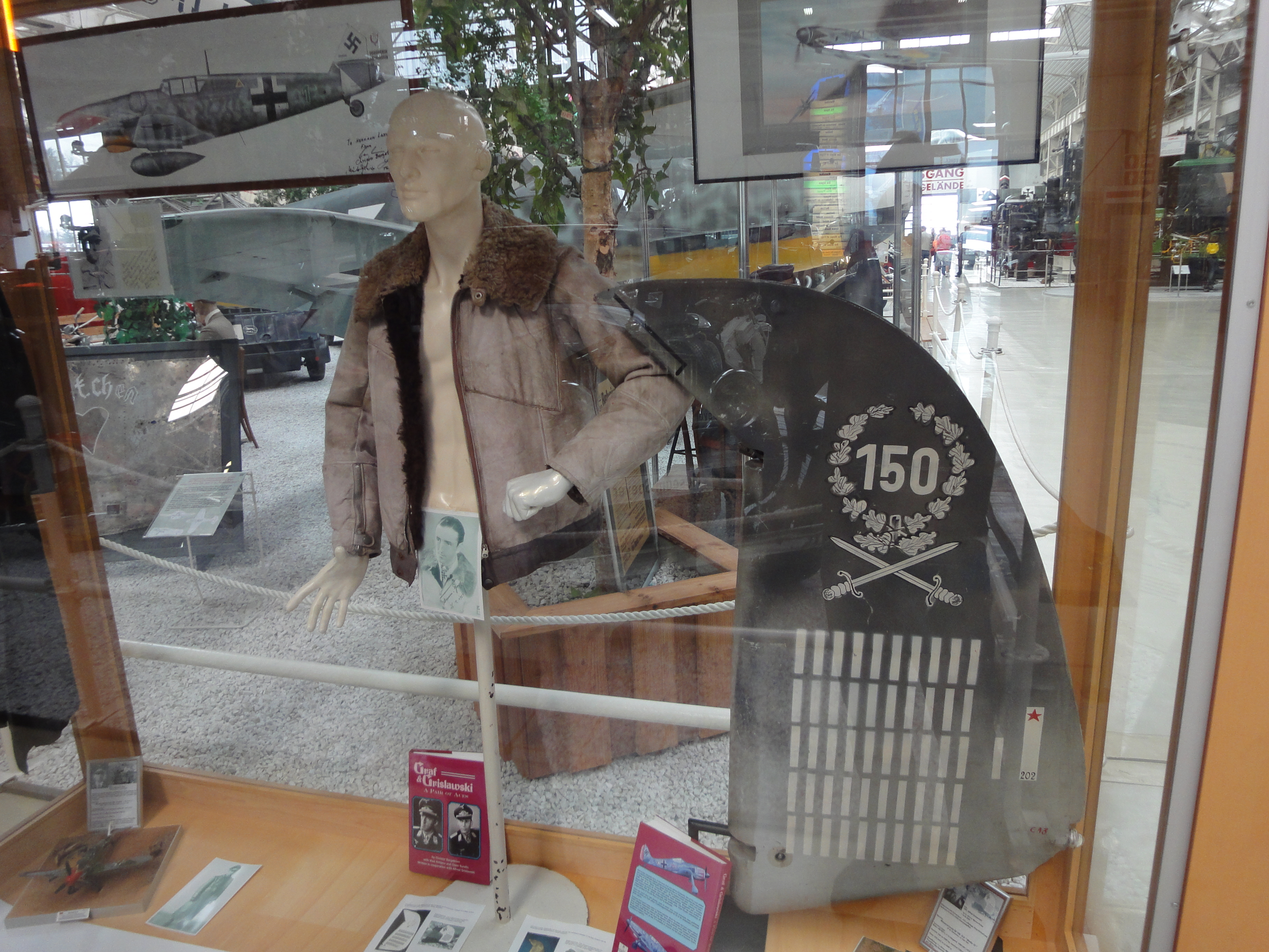 picture of Hermann Graf's leather jacket and Me 109 tail rudder on display at the Technikmuseum Speyer, Germany